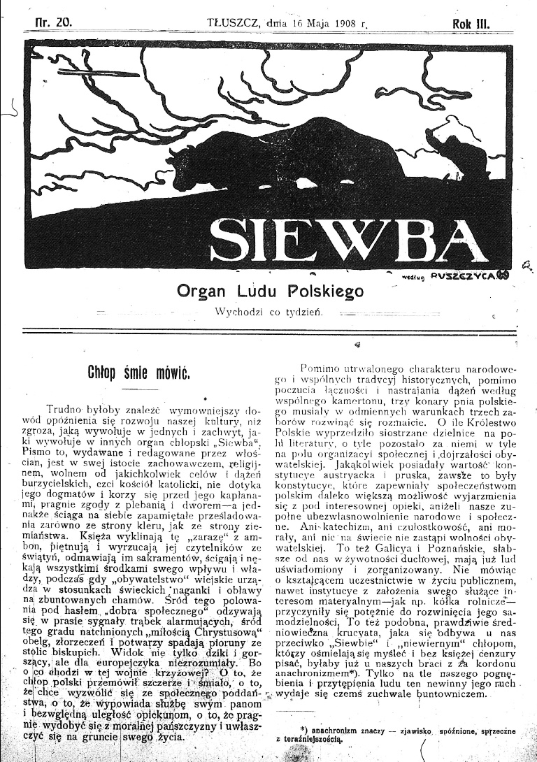 The cover of the last issue of Polish peasant magazine "Siewba" published in 1906-1908